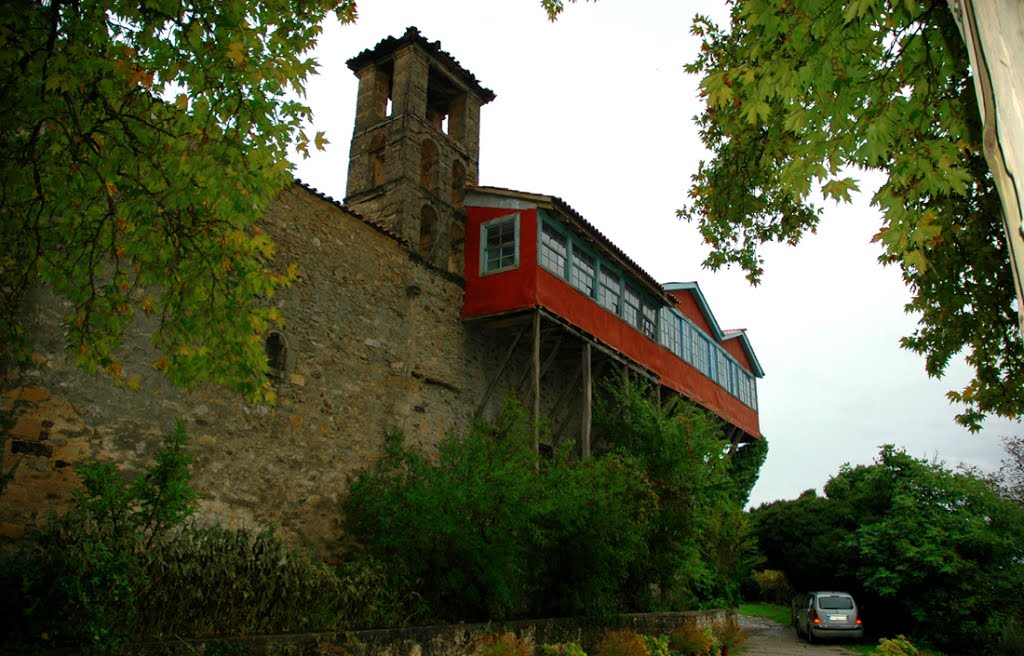 Monastery of Saint George in Feneos, Greece